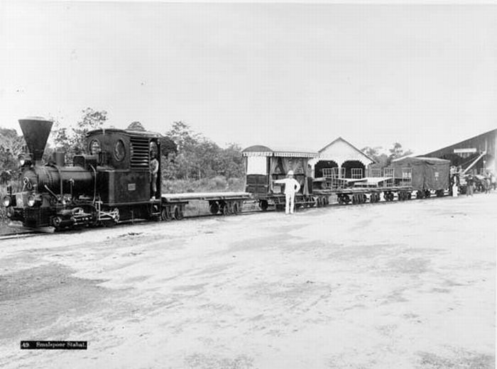 Locomotive for narrow gauge railway on the tobacco plantation Stabat near Timbang Langkat, Sumatra.